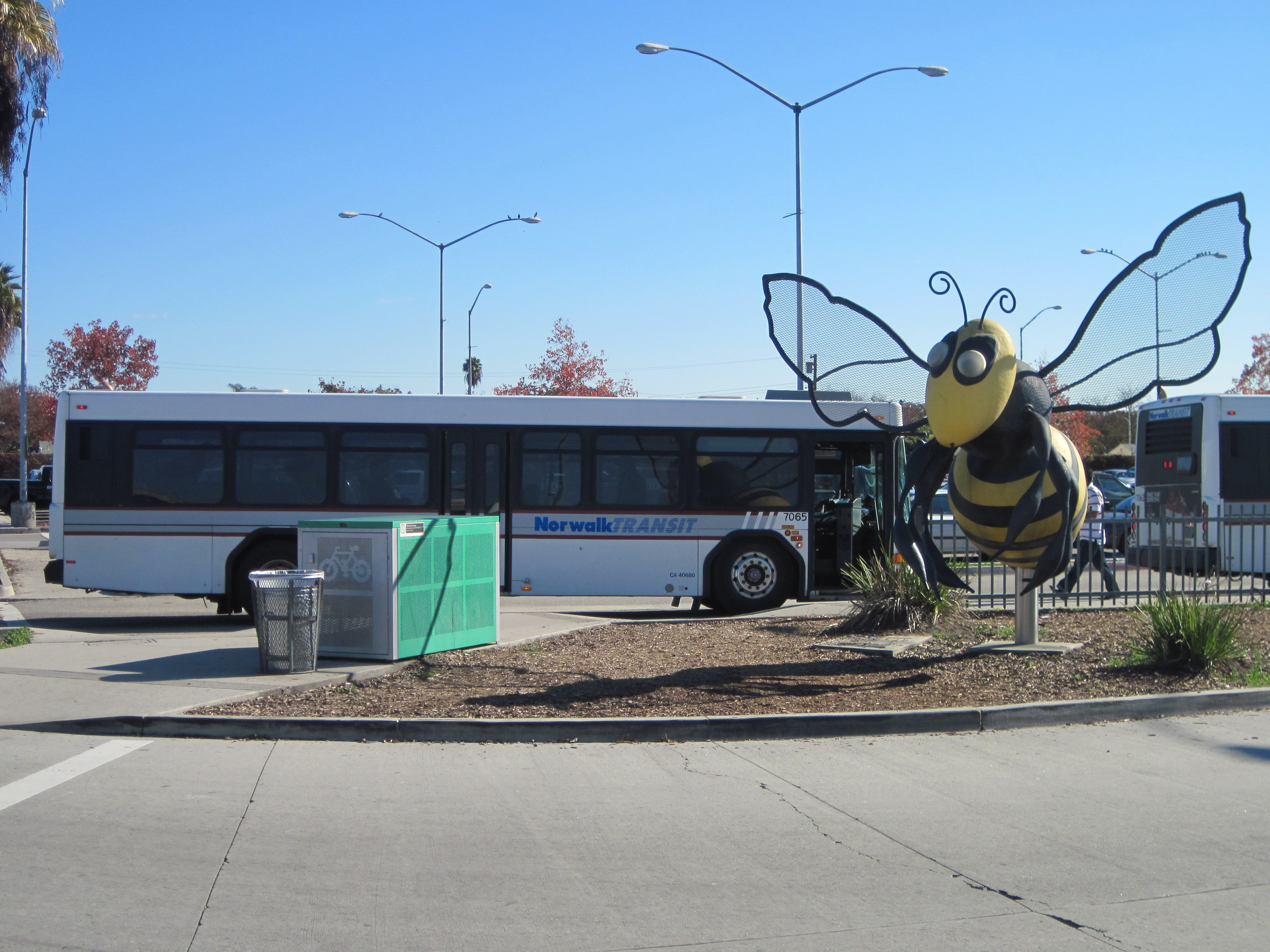 Norwalk Transit bus #7065 awaits passengers at Norwalk station on the Metro Green Line in Norwalk, California, USA.